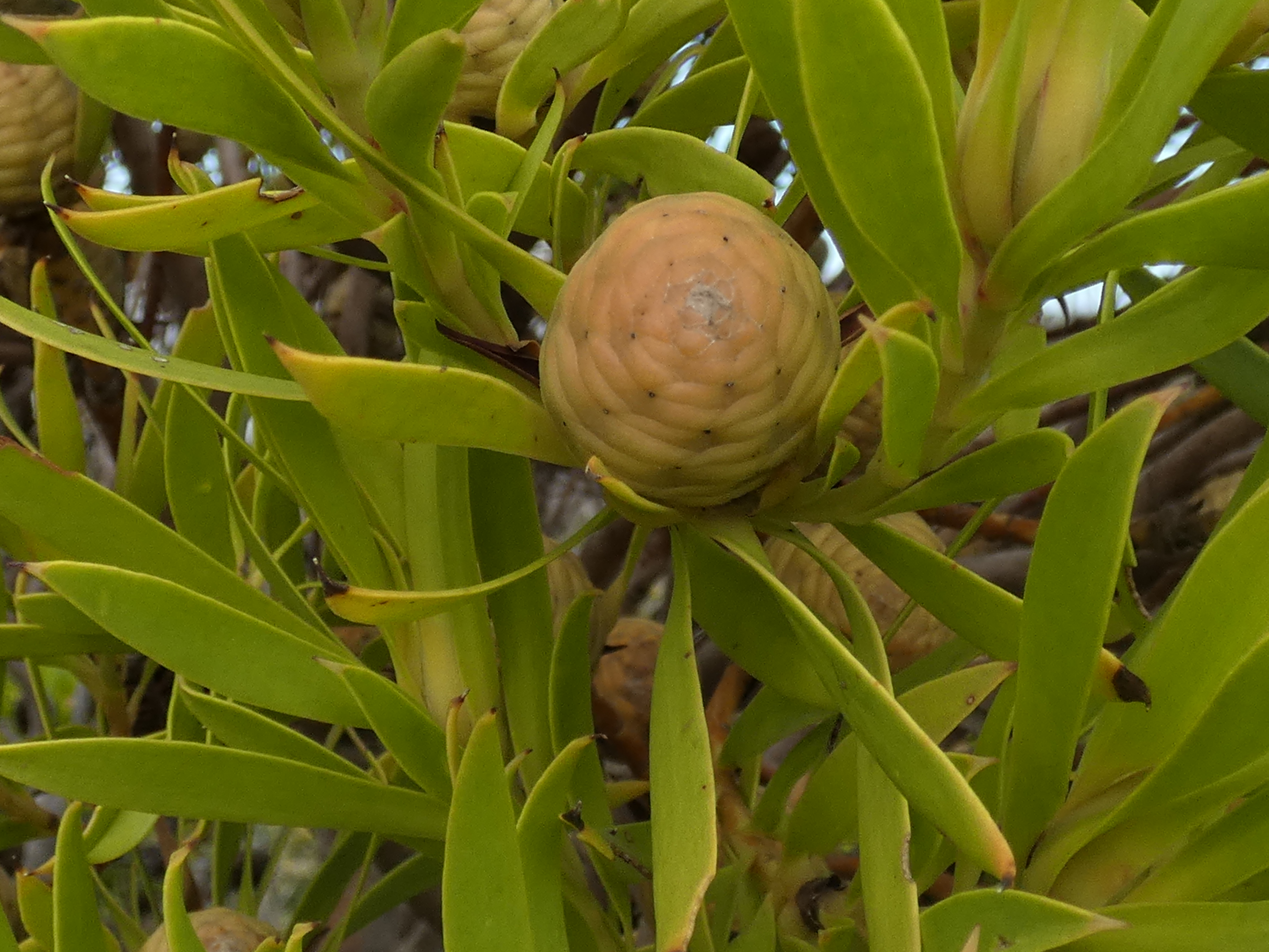 female plant of dune conebush or dune yellowbush Leucadendron coniferum, photgraphed in Betty's Bay, SA